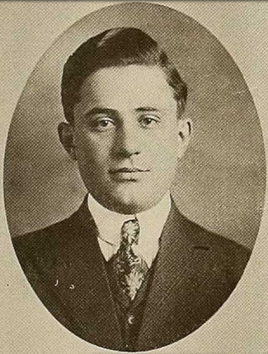 James J. Lanzetta, Congressman and Judge from New York